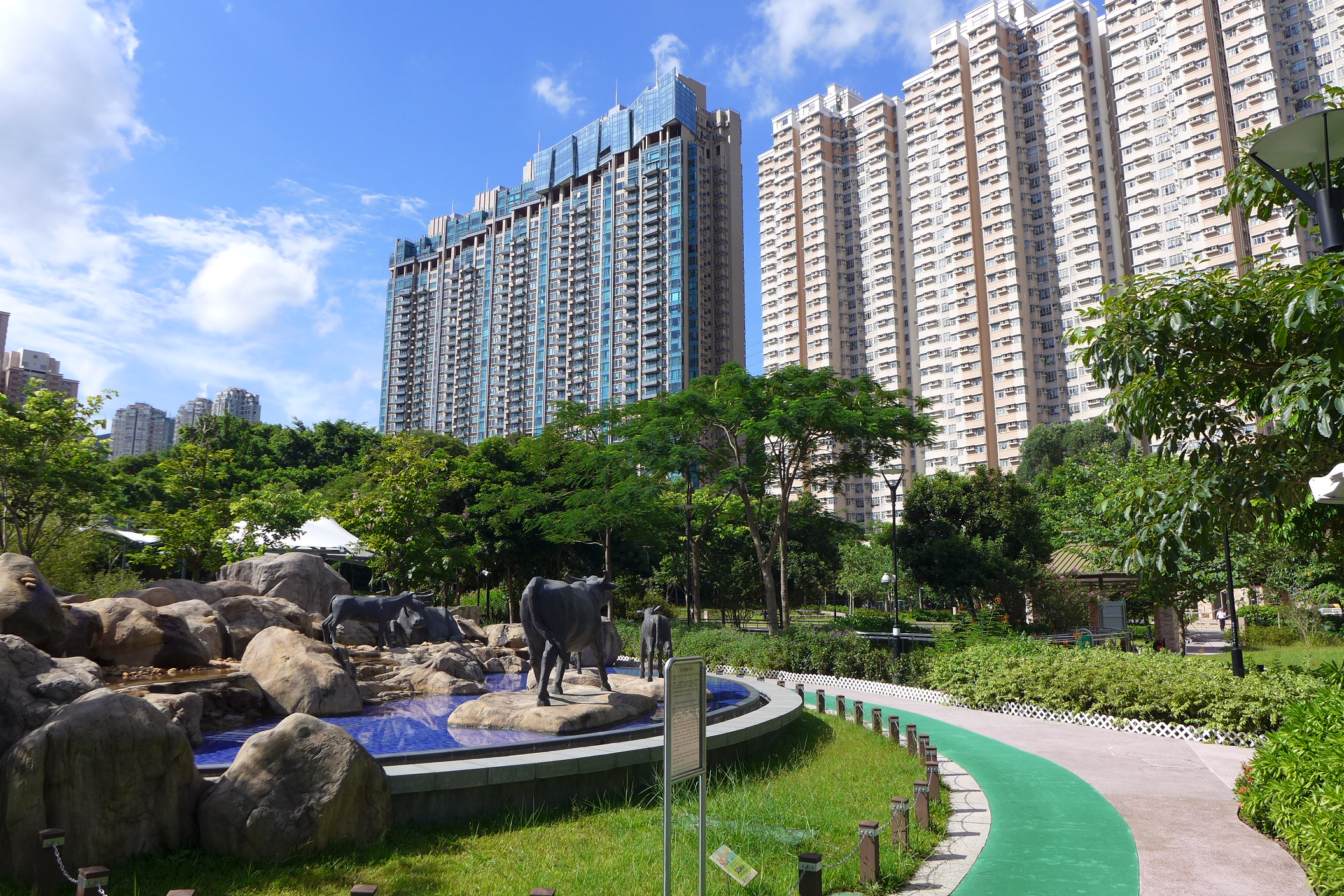 Ngau Chi Wan Park Rocky Pool with Buffalo Sculptures